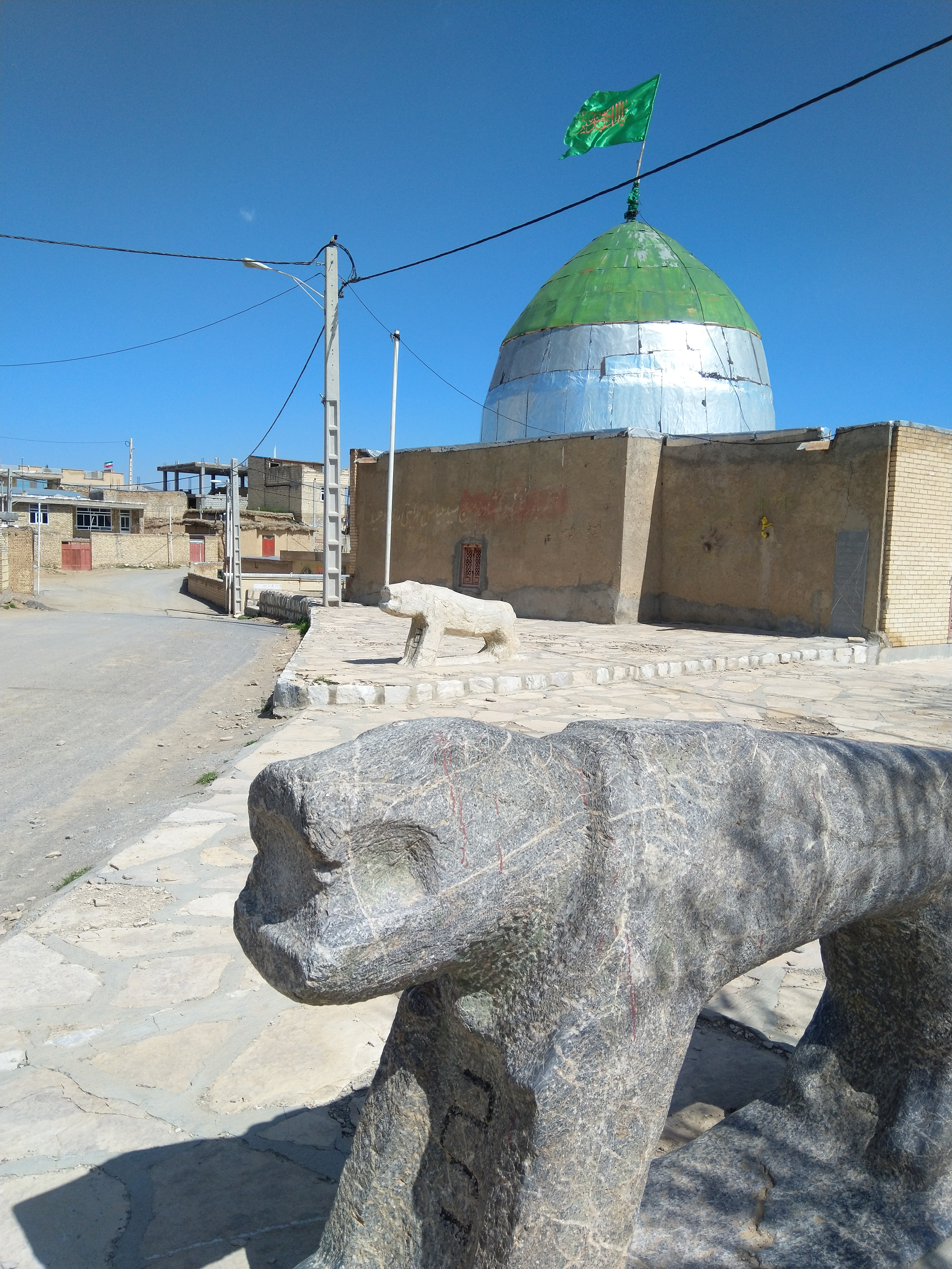 An outside view of a grave entitled to Kaveh the Blacksmith inside; Mashhad-e Kaveh, Isfahan, Iran.